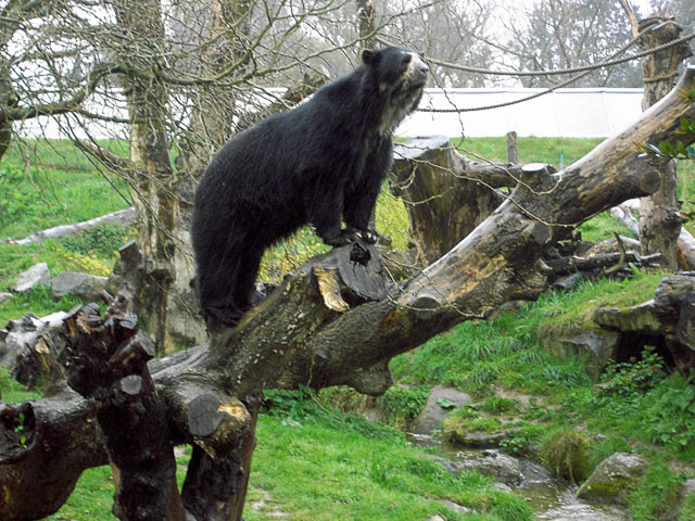 Spectacled Bear at Jersey Zoo. Jersey Zoo is properly called the Durrell Wildlife Conservation Trust. This rare Spectacled Bear is the first thing the visitor would see (in 2005) on entering the zoo.